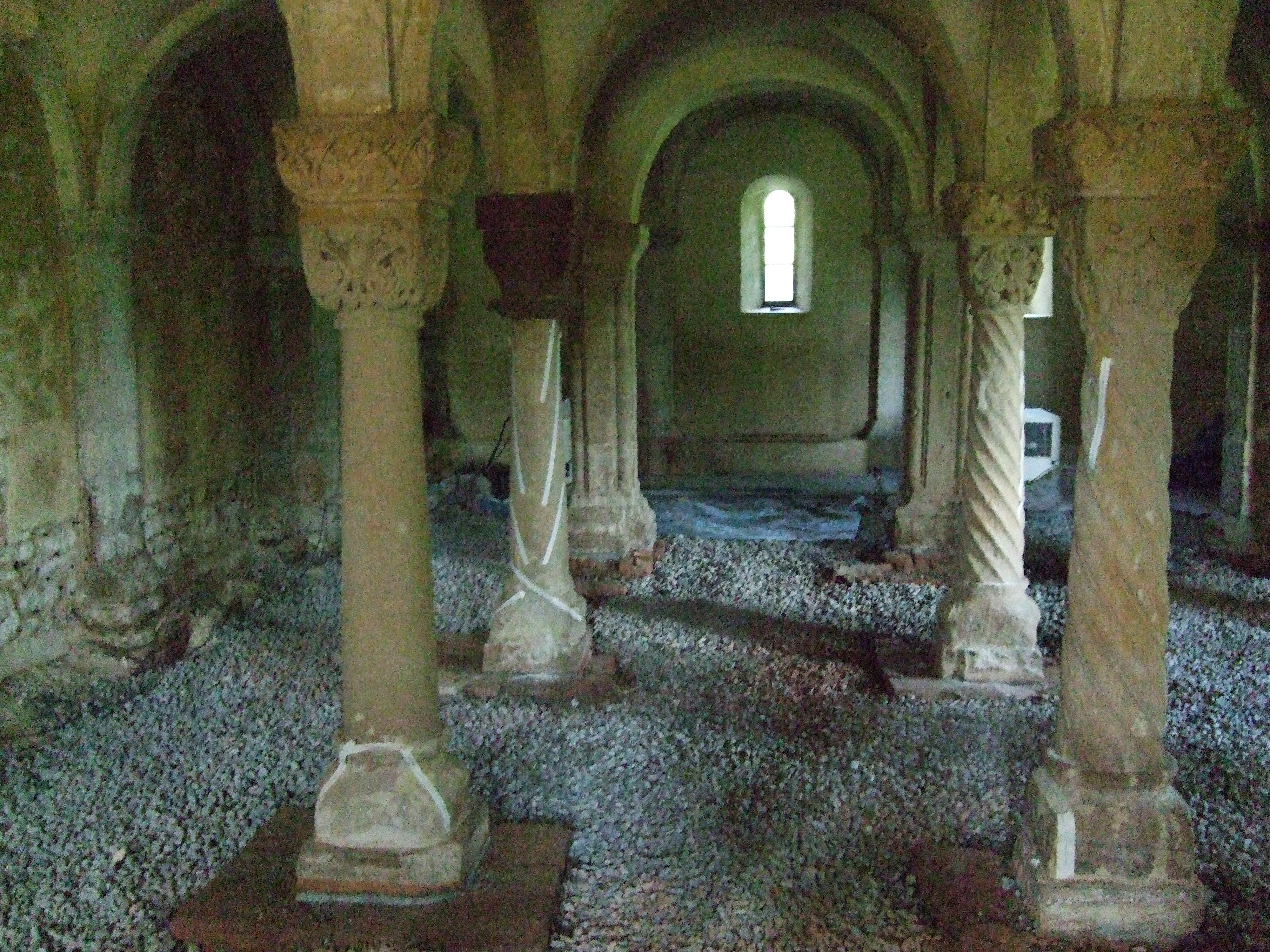 Crypt of the basilica Konradsburg, Sachsen-Anhalt, Germany, during restoration